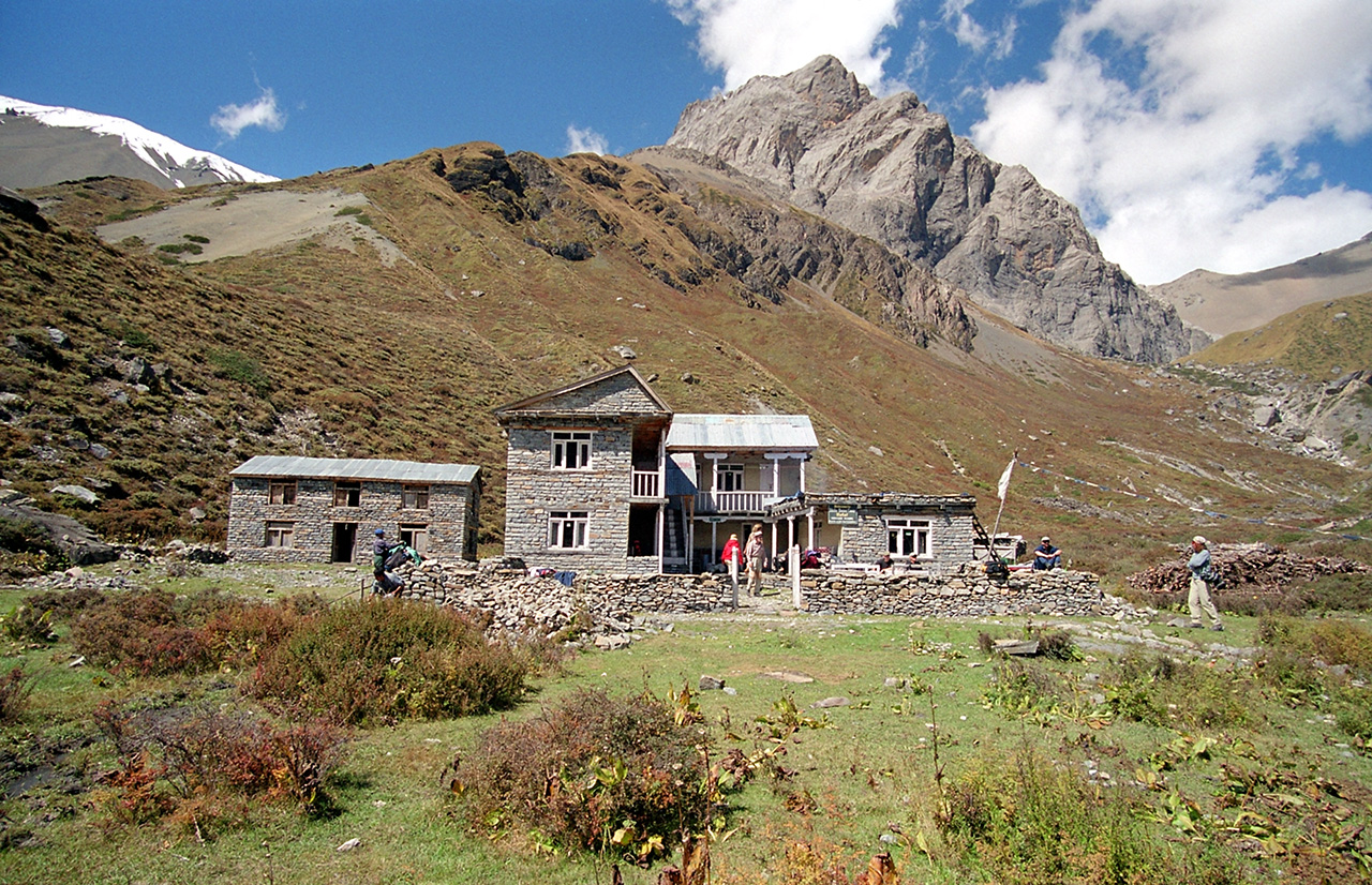 Tilicho Base Camp Lodge